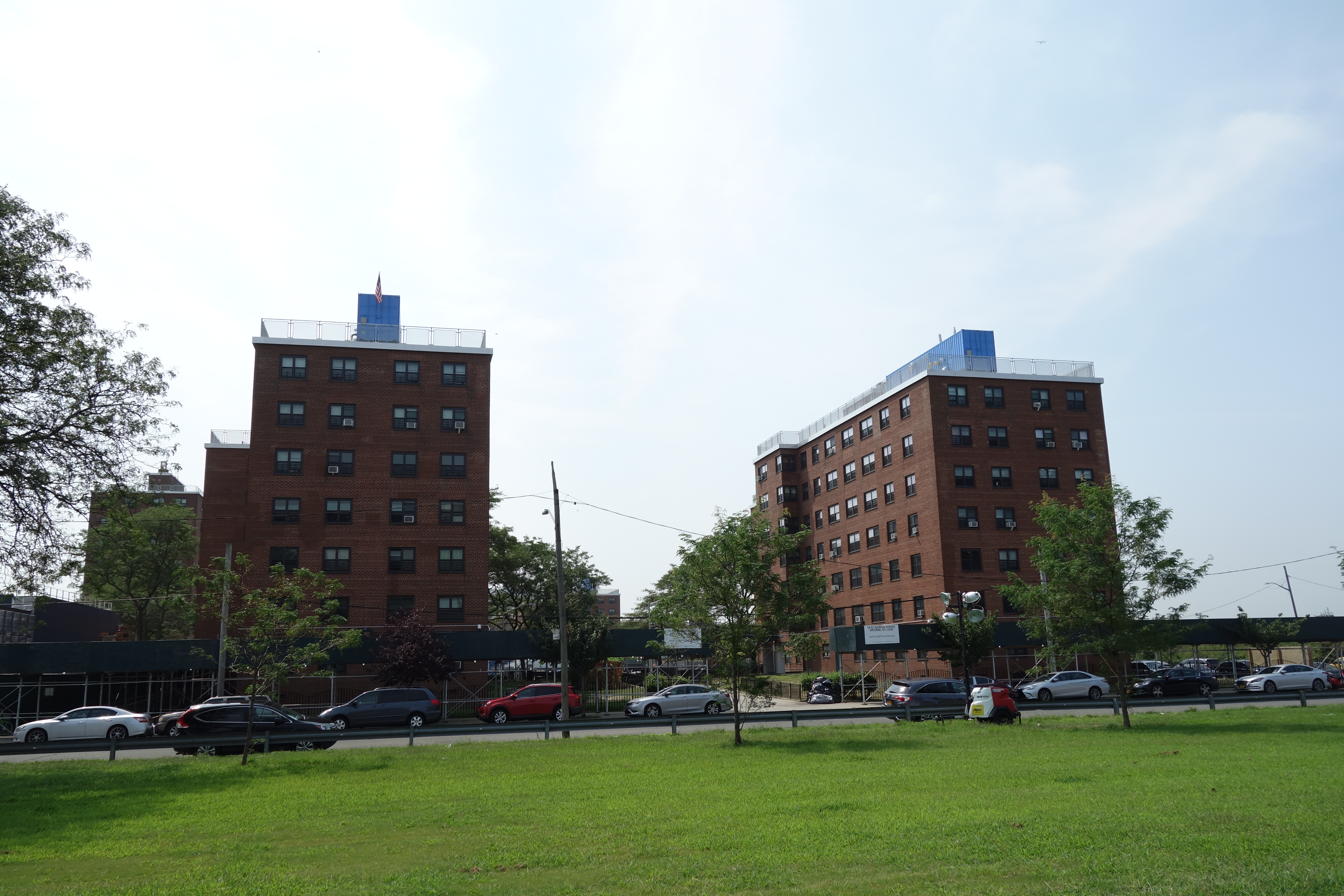 Looking south at the Edgemere Houses from Rockaway Community Park (formerly Edgemere Park), on Almeda Avenue east of Beach 58th Street in Edgemere, Queens. The open section of the park was built along with the housing project.